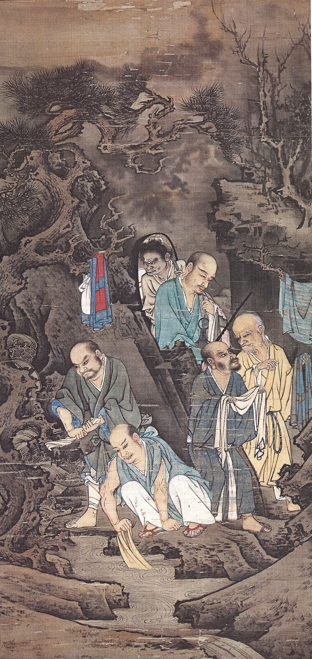 Luohan Laundering, by Lin Tinggui, painted in 1178 during the Song Dynasty; ink and color on a silk hanging scroll, measuring 111.8 cm (44 in) in height and 53.1 cm (20.8 in) in width. In the painting, five Chinese Buddhist luohan (arhats) and one attendant wash clothes in a stream and hang them up to dry.